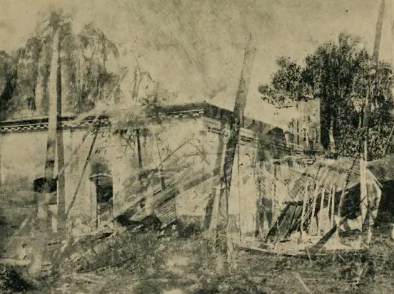 The image is scanned from a the book "Short Report of Hindu Mahasabha Relief Activities during Calcutta Killing and Noakhali Carnage", published by Bengal Provincial Hindu Mahasabha in 1946. The image shows the house of Rajendralal Roy, the president of Noakhali Bar Association and Noakhali District Hindu Mahasabha, that was destroyed by the attackers.